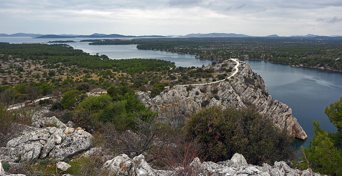 A stretch of sea, leading to Šibenik town. Along the channel a nice hiking/biking track is arranged.